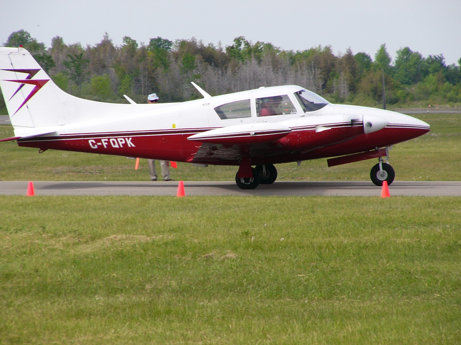 Piper PA-30 Twin Comanche at Smiths Falls Airport, Ontario